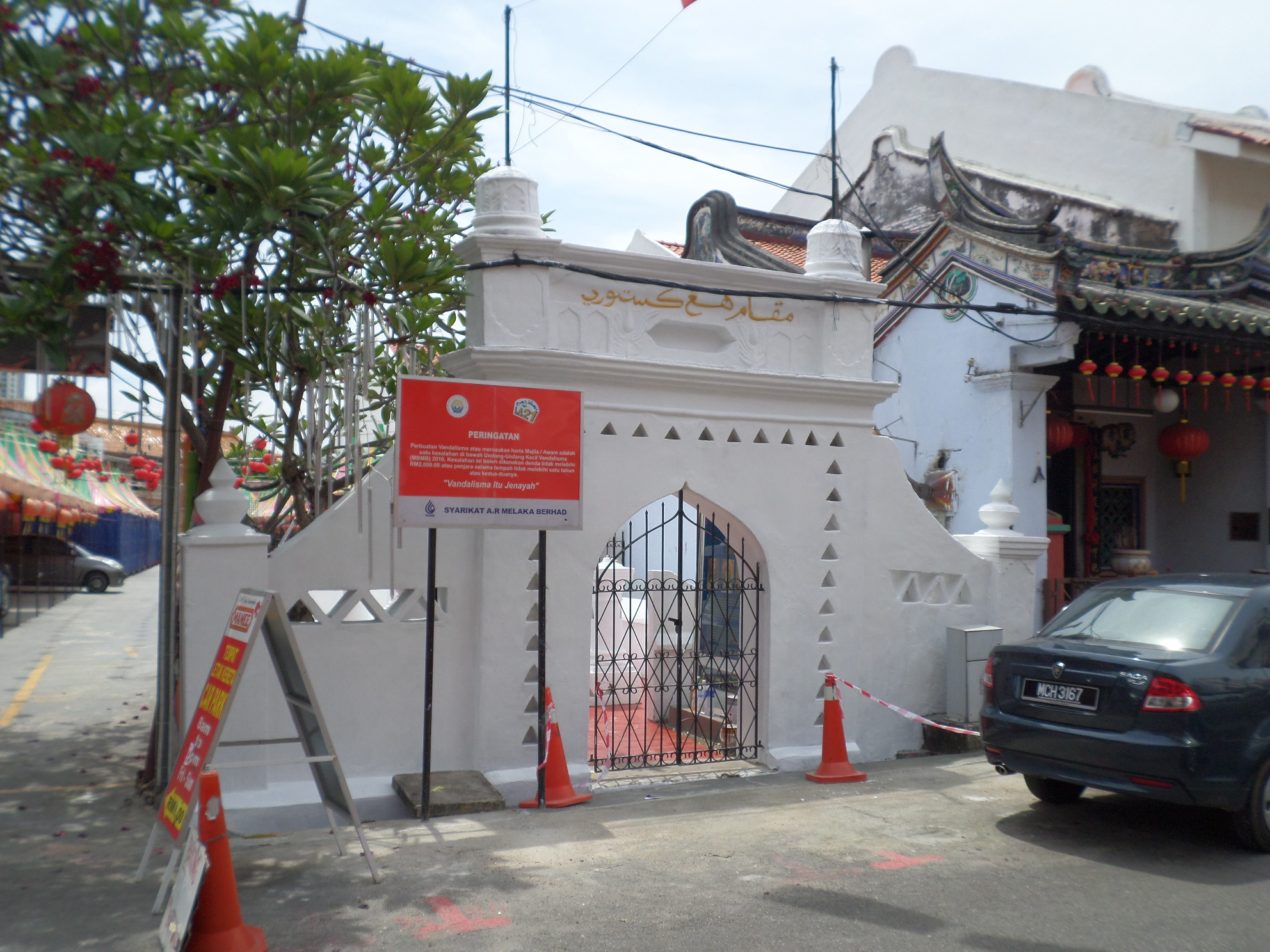 Hang Kasturi Mausoleum, Malacca Town, Malacca, Malaysia